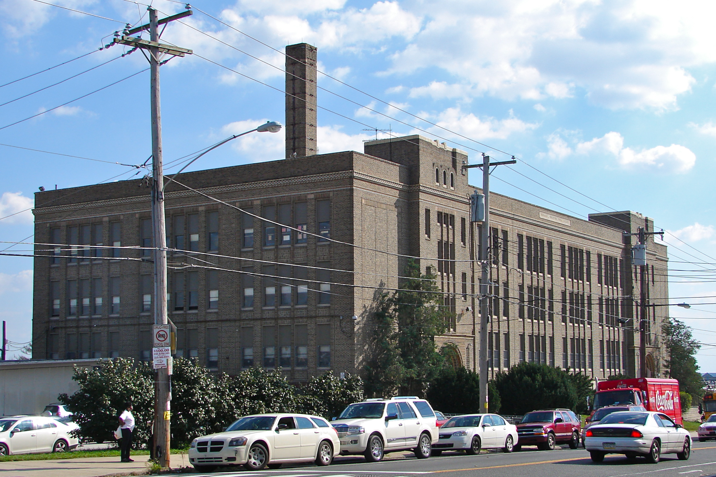 Thomas K. Finletter School in Philadelphia on the NRHP since November 18, 1988. At 6101 North Front St. in the Olney neighborhood of north Philly.